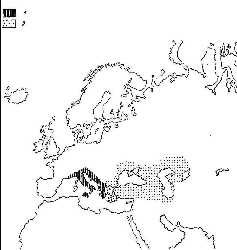 Elaphe sauromates and Elaphe quatuorlineata distributions